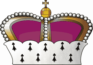 Princely nobility/heraldy crown